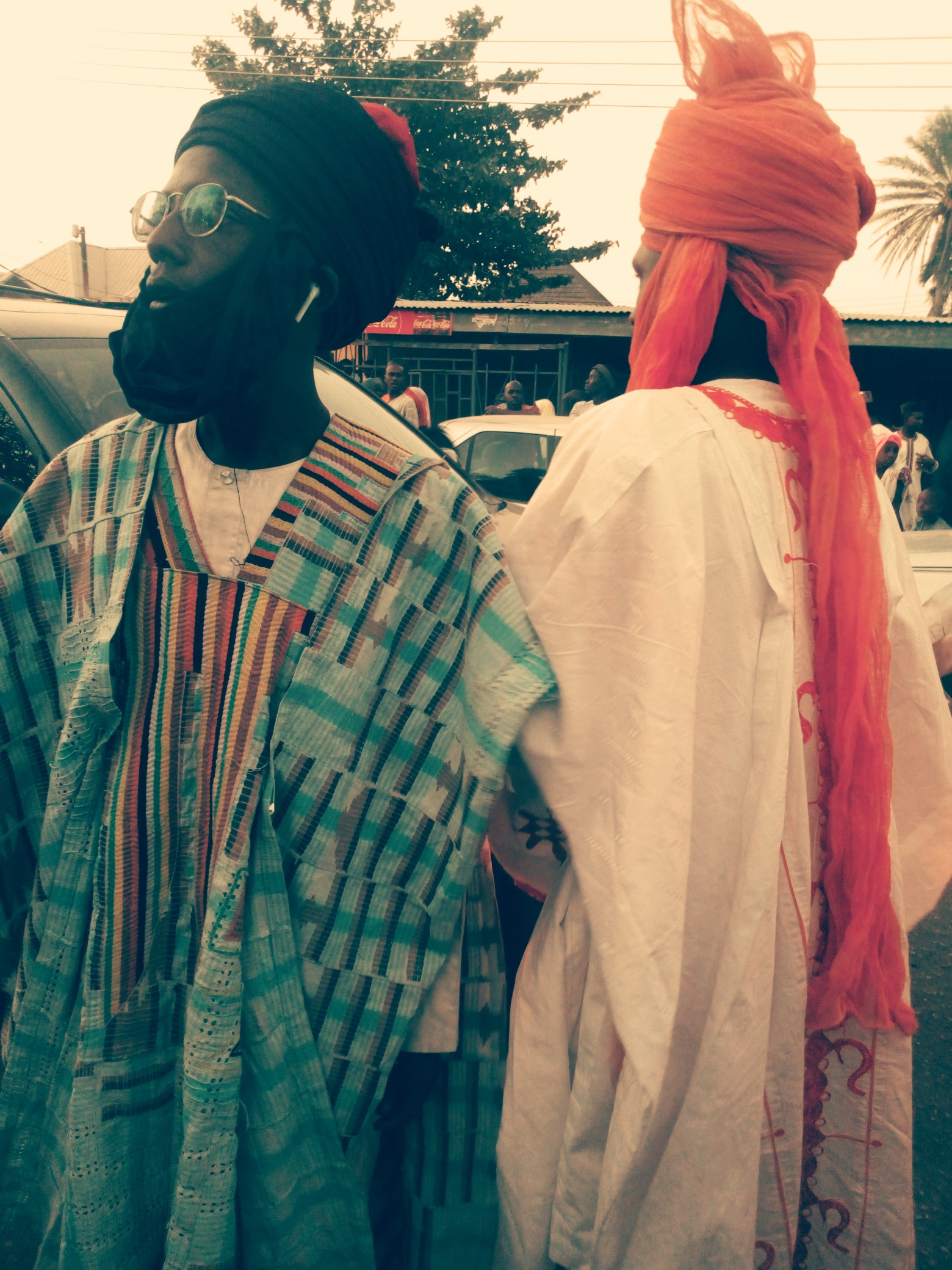 Royal dressing of royal hausa people This photo has been taken in the country: Nigeria